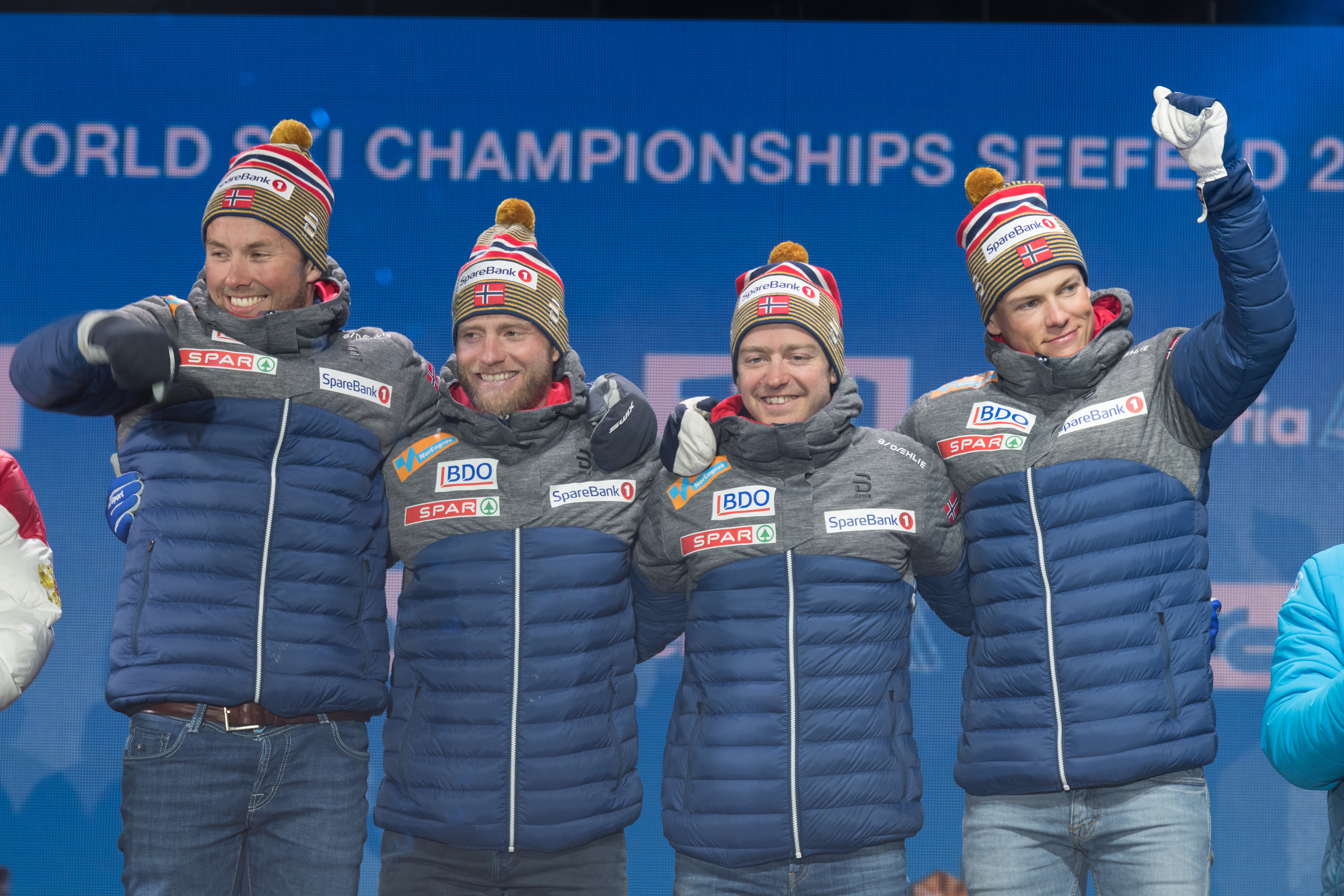 FIS Nordic World Ski Championships Seefeld 2019 - Medal Ceremony at the Medal Plaza. Picture shows Emil Iversen (NOR), Martin Johnsrud Sundby (NOR), Sjur Roethe (NOR), Johannes Hoesflot Klaebo (NOR).